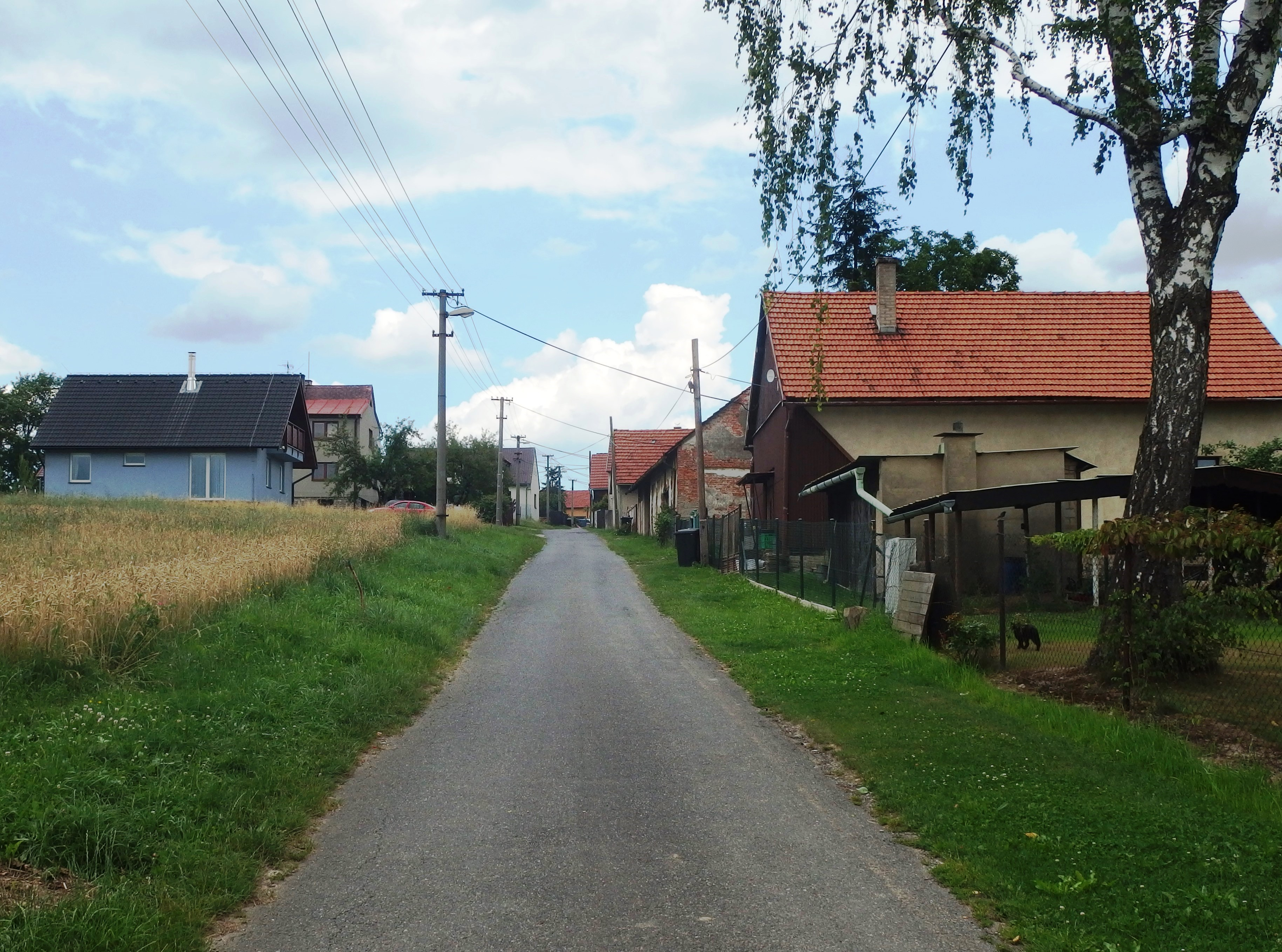 Fryčovice, Frýdek-Místek District, Czech Republic, part Ptáčník.